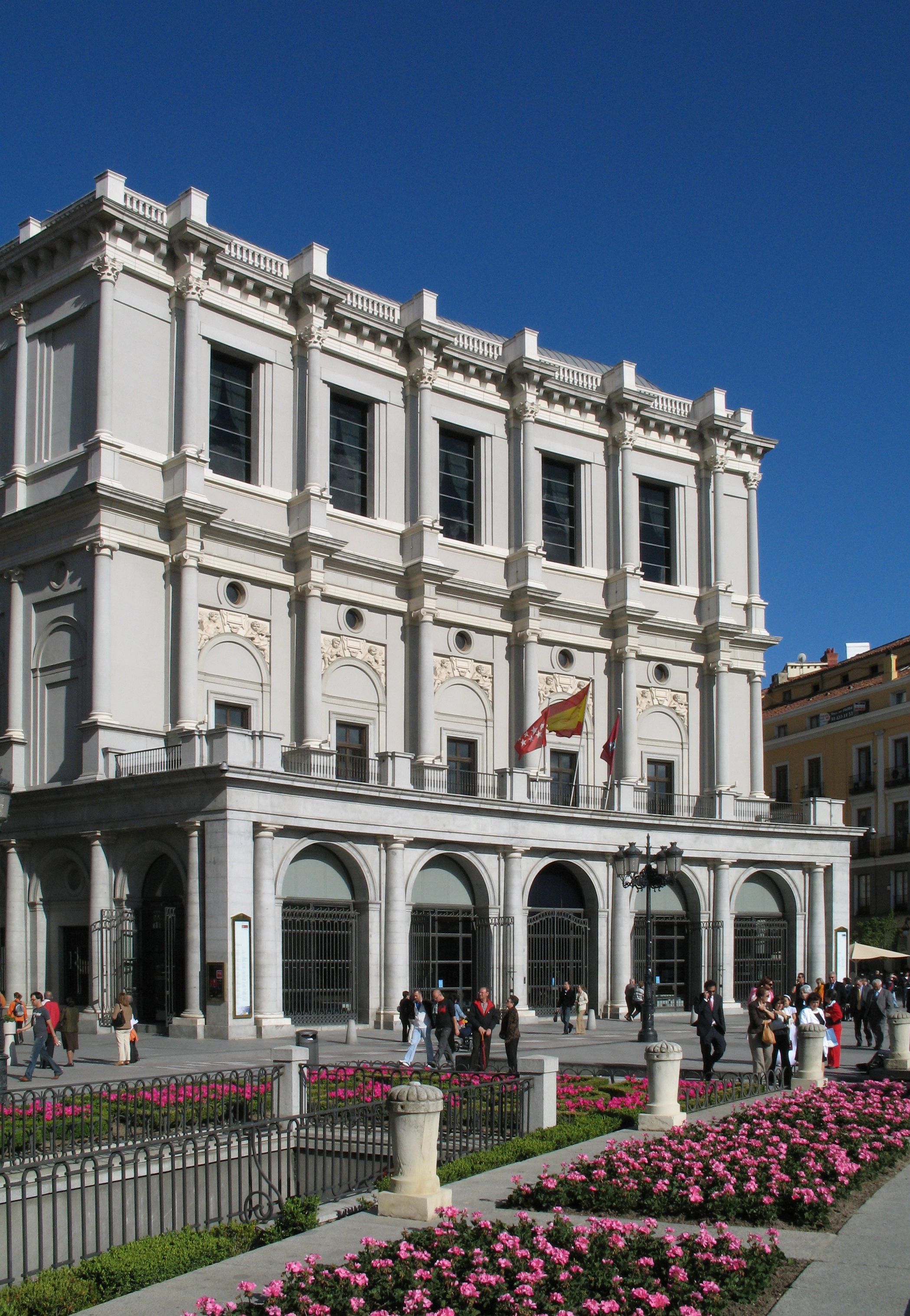 Madrid, Royal Opera House (Teatro Real)